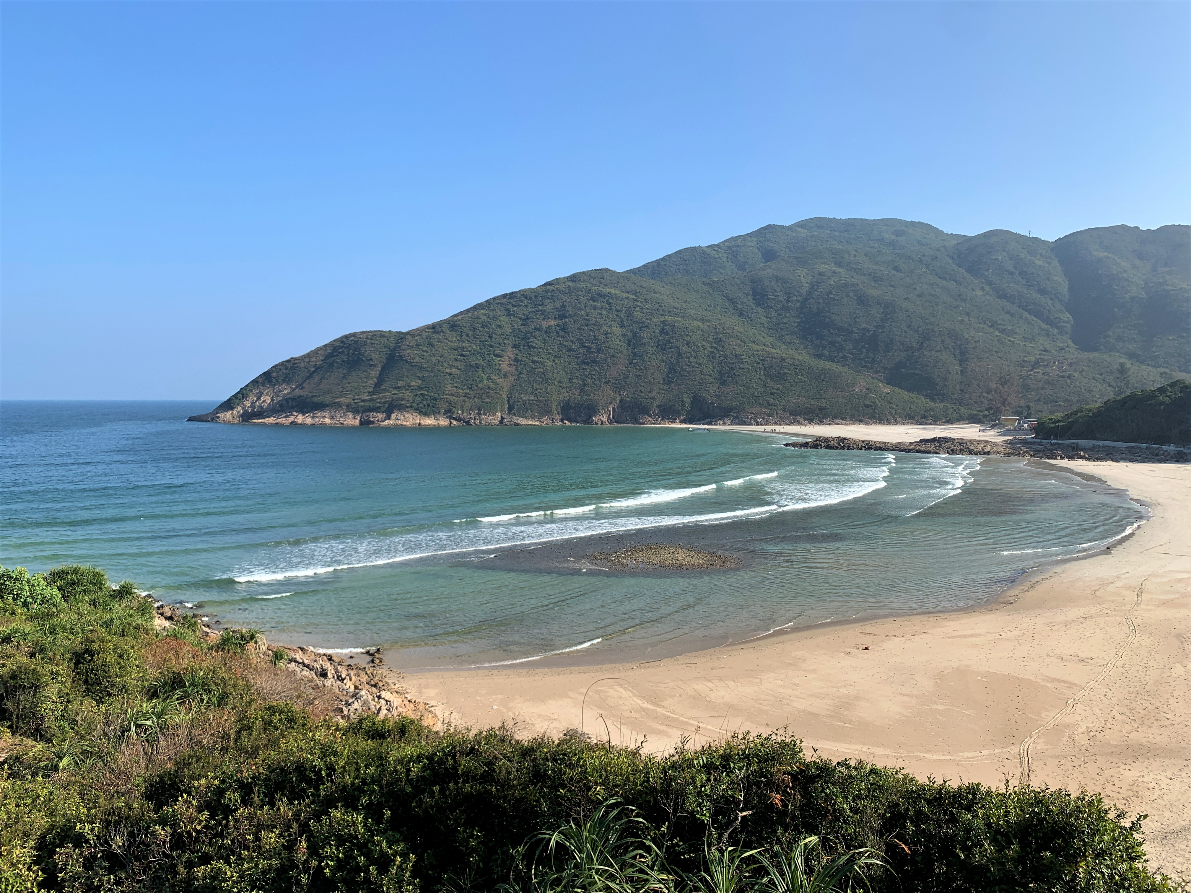 The view of Tai Long Sai Wan in Hong Kong